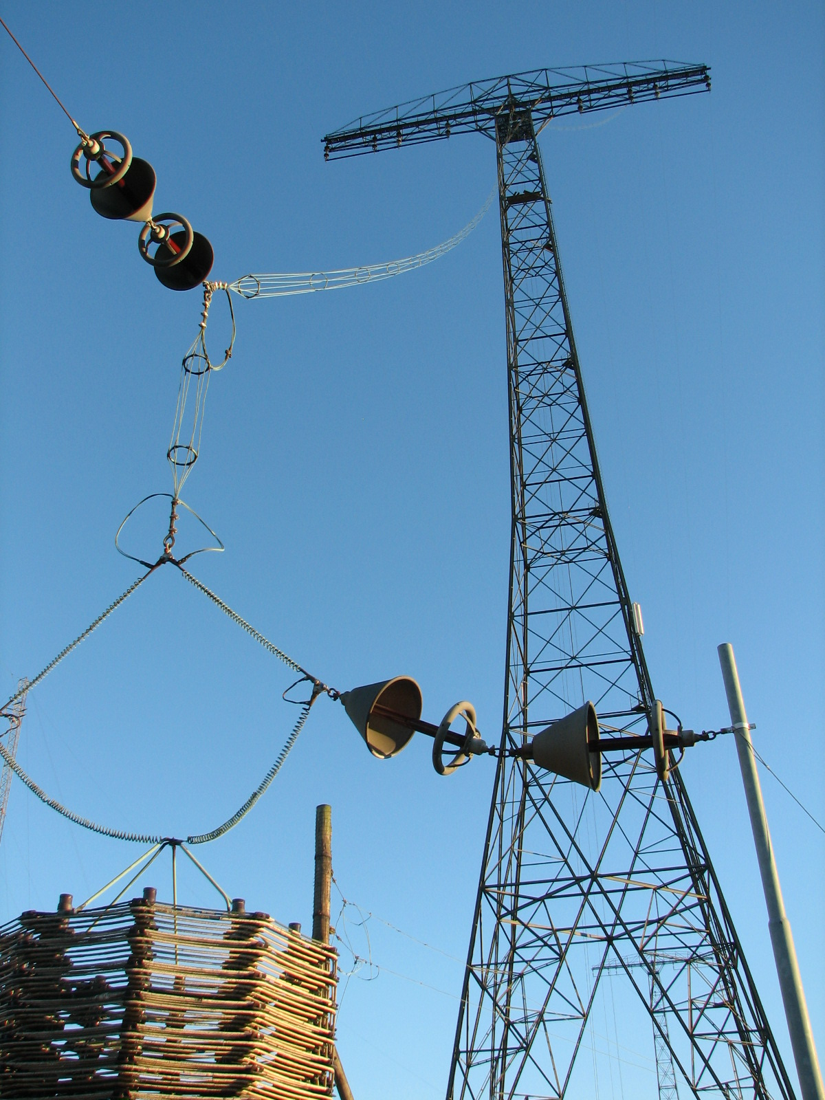 One of the vertical antennas in a row of six at Grimeton VLF transmitter SAQ, located near Varberg, Sweden. The (nearly) vertical antenna wire is connected to a large coil at ground level to compensate for the very short antenna, compared to the huge wavelength.